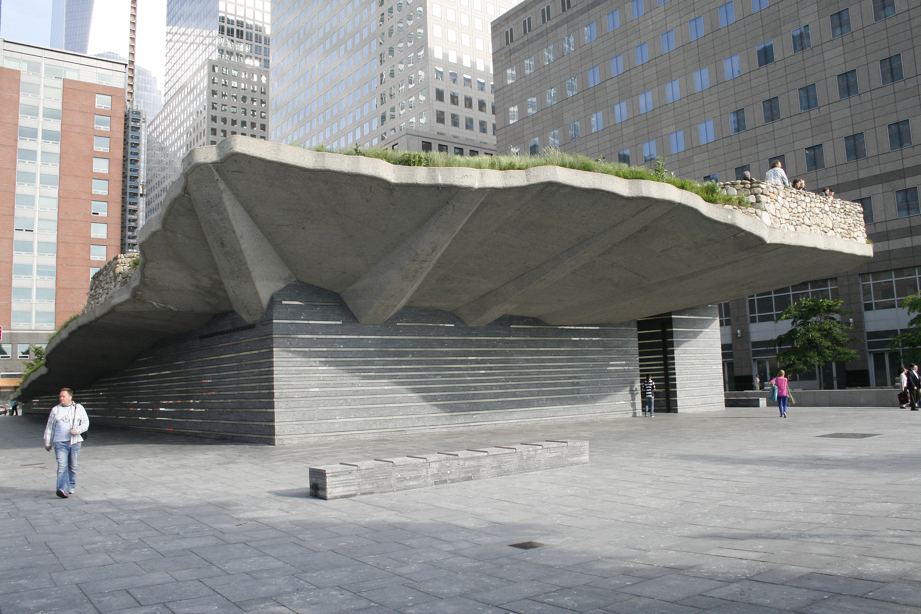 Photograph by Michael Luft-Weissberg